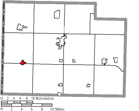 Map of the municipal and township boundaries of Paulding County, Ohio, United States, as of the 2000 census, with the location of the village of Payne highlighted. Township borders are shown only in unincorporated areas in order to differentiate incorporated and unincorporated areas more clearly.